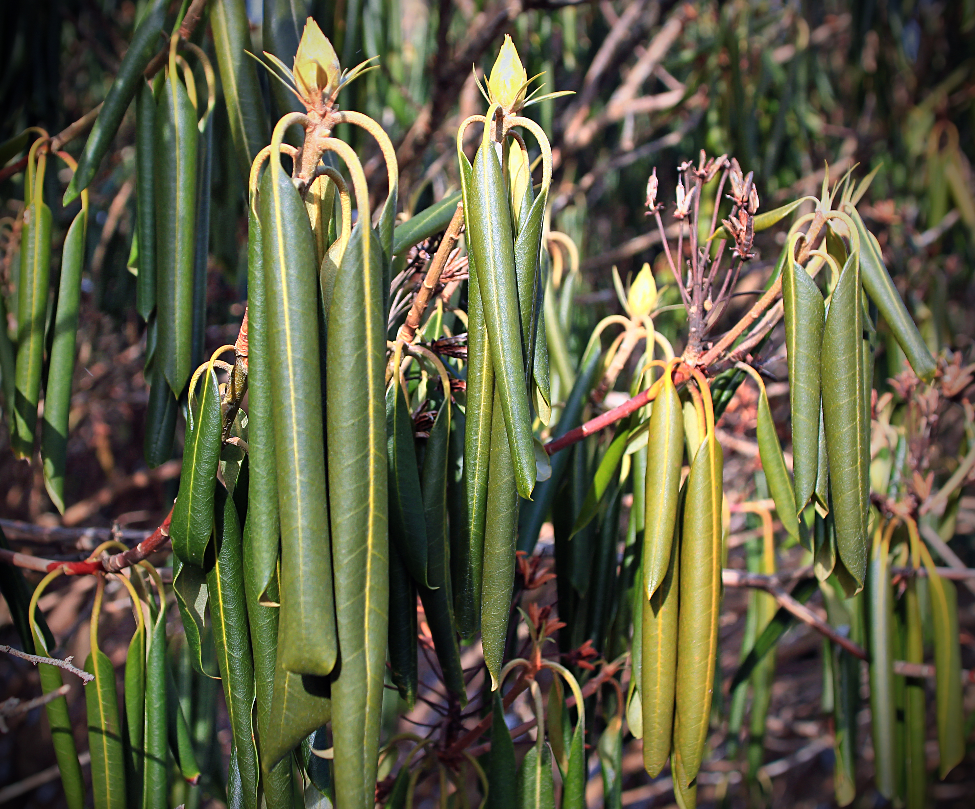 Rhododendron (Rhododendron maximum), Lackawanna State Forest, Lackawanna County. A cold-hardy species, R. maximum responds to subfreezing temperatures by curling, folding down, and clamping shut its foliage. This action helps protect the shrub from the desiccating effects of cold air. (According to my GPS unit, the air temperature was 9ºF [–13ºC] at the time.)